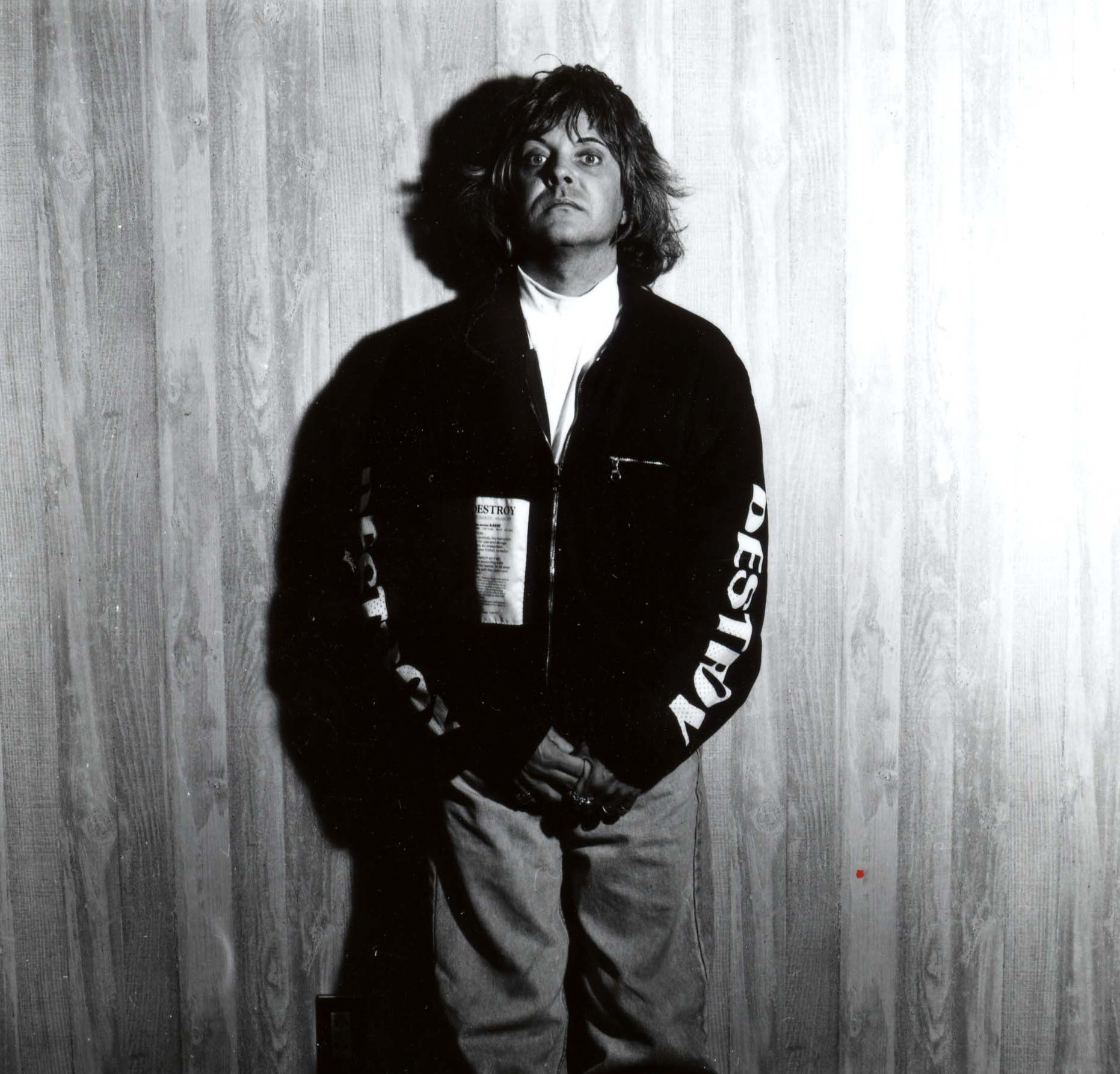 Genesis P. Orridge of the bands Throbbing Gristle, and Psychic TV posing in Japan.